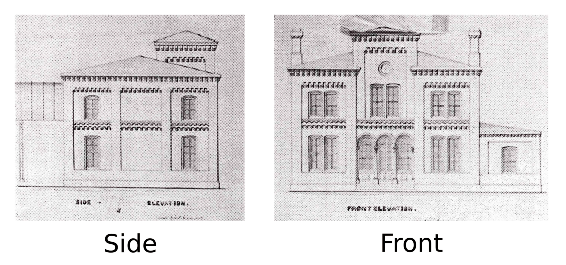 Architectural drawing by Joseph Hoxie (1814-1870) of a station building for the Norristown (PA) train station. Revised version of the plan.